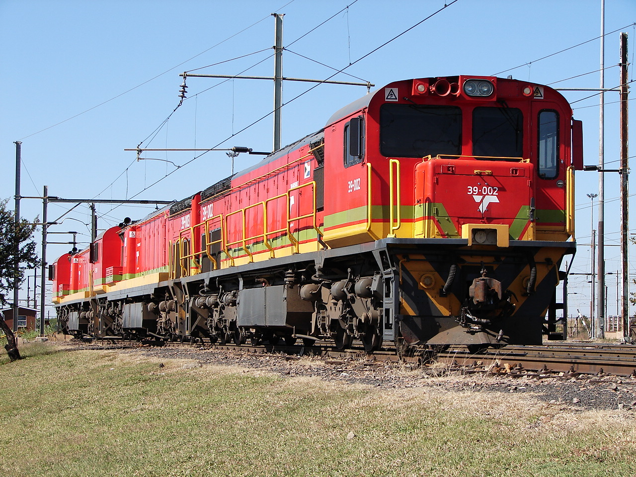 South African Class 39-000 39-002Builder's number: GMSA 112-38Type: EMD GT26CU-3Location: Pyramid South, Pretoria, GautengHistory: Rebuilt by Transnet Rail Engineering from Class 34-800 no. 34-838